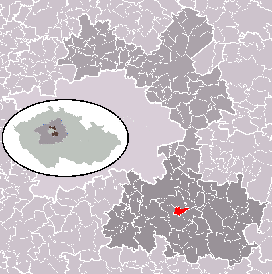 Location of Klokočná municipality within Prague-East District and administrative area of Říčany as a Municipality with Extended Competence.